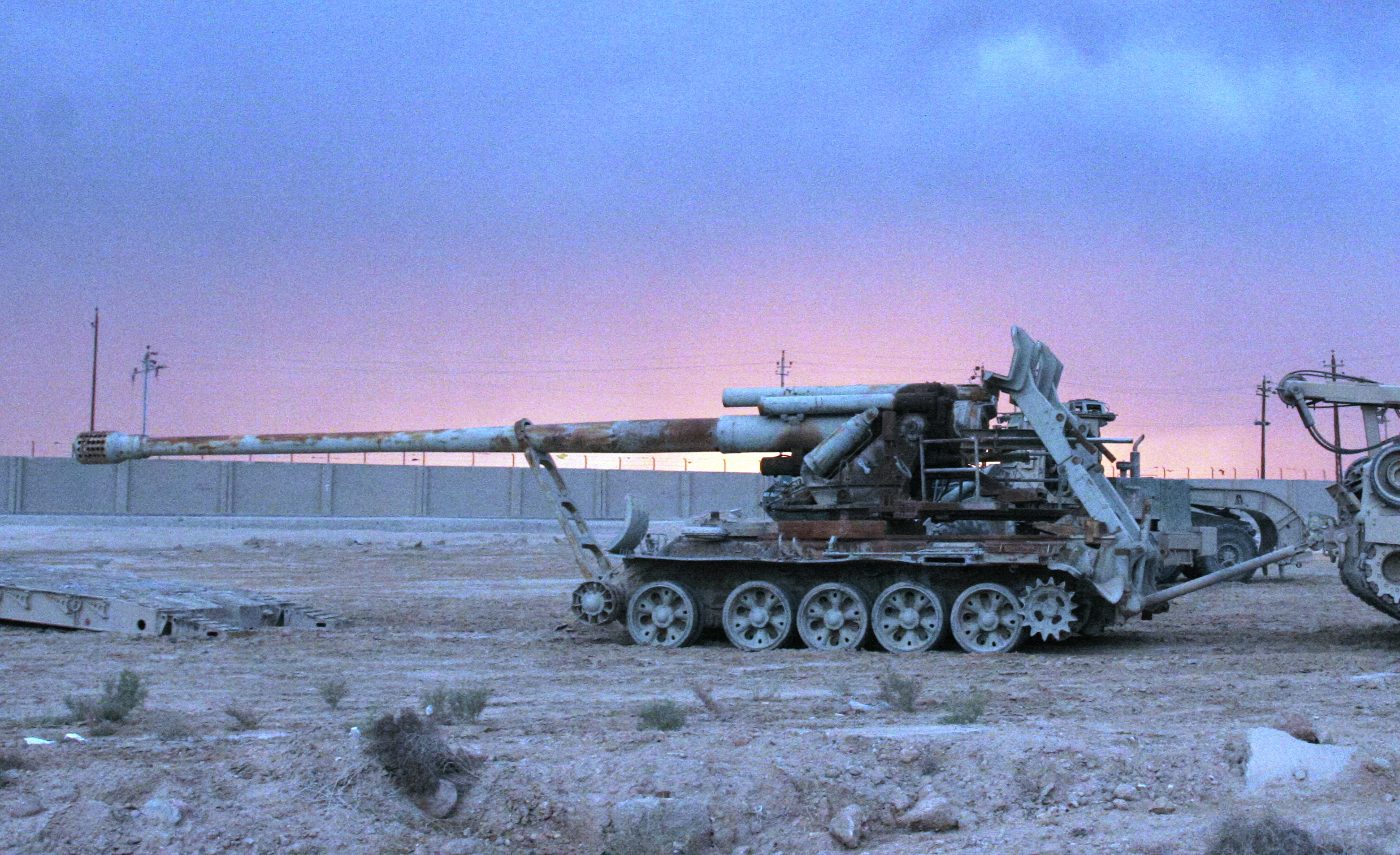 A North-Korean-built M-1978 KOKSAN displayed at the Al Anbar University campus in Ramadi, Iraq is to be removed by U.S. Forces.